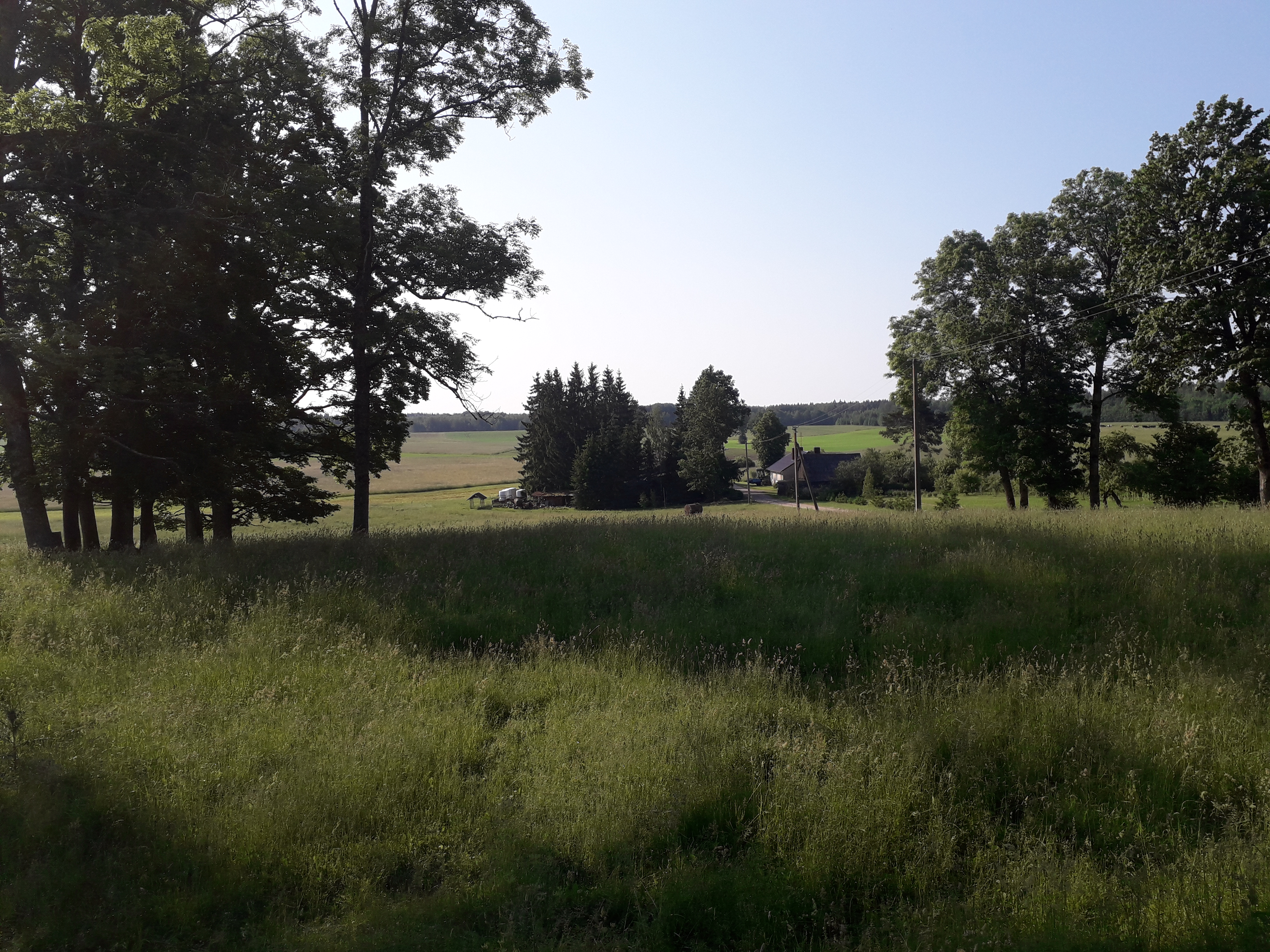 Taručiai, Rokiškis District, Lithuania